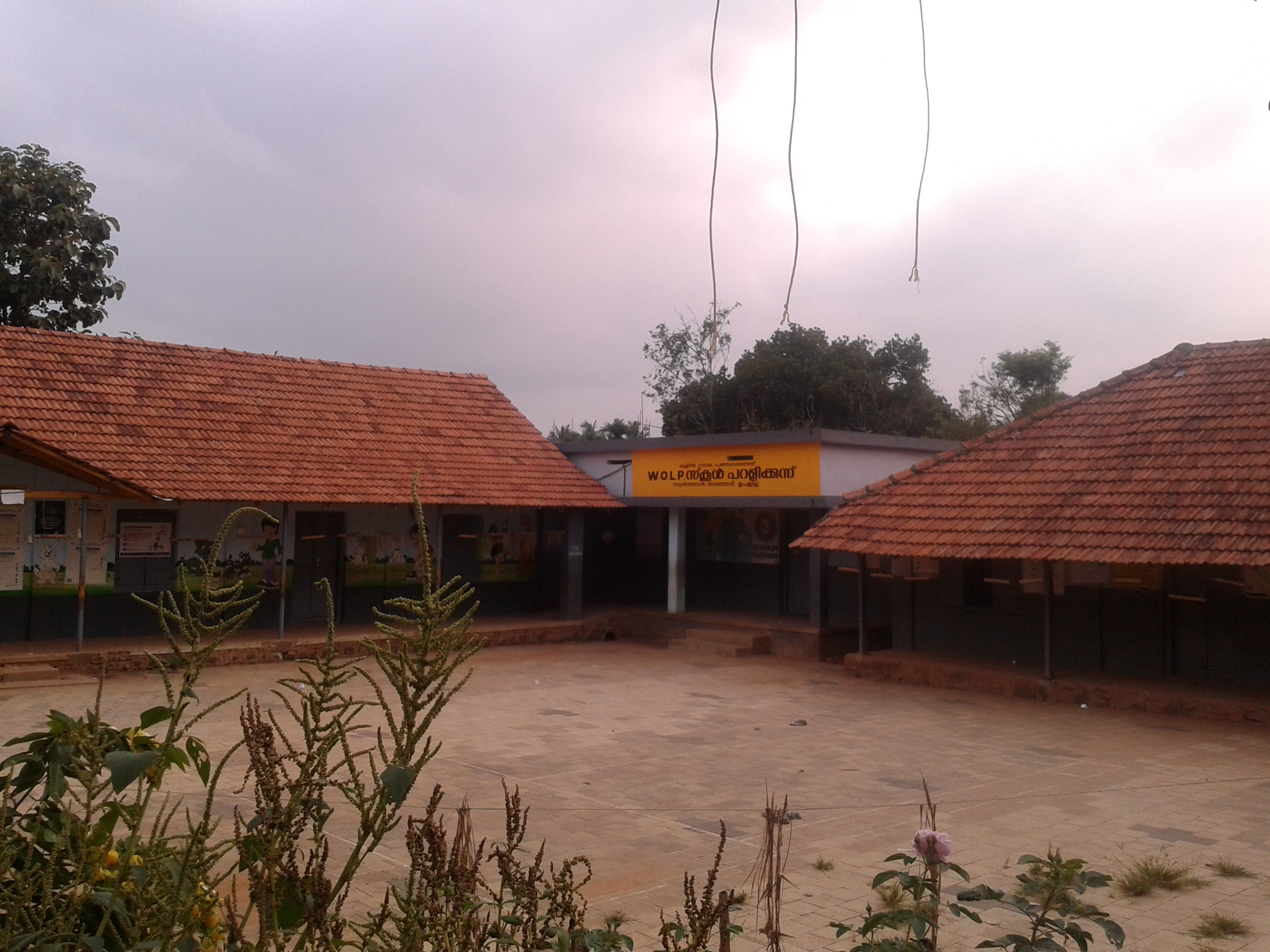 WMOLP SCHOOL PARALIKKUNNU